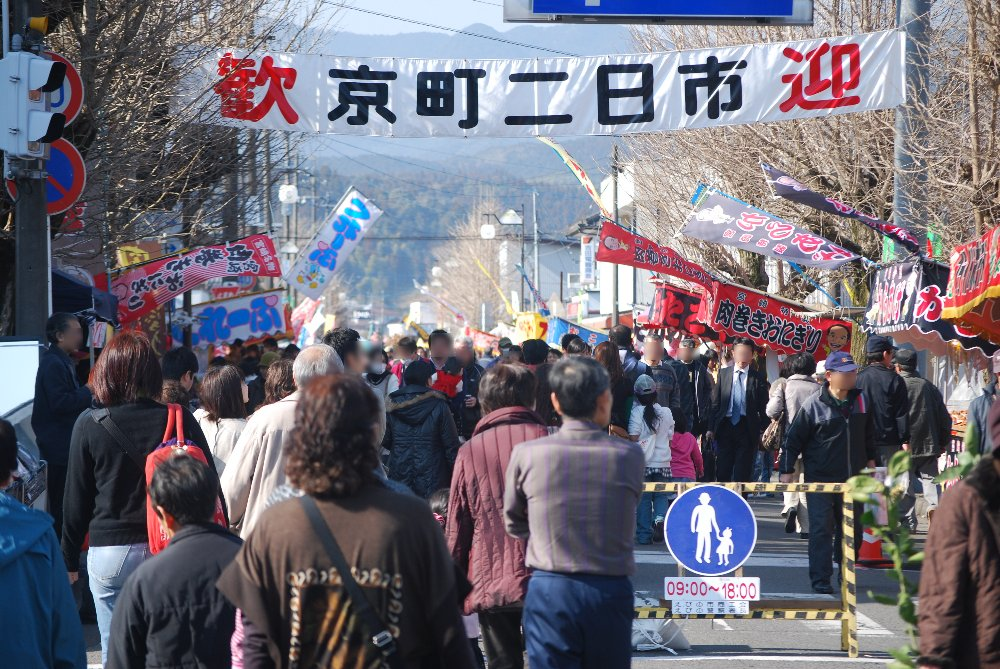 Hutsuka-ichi Market,Kyomachi-Spa,Ebino-city,Japan